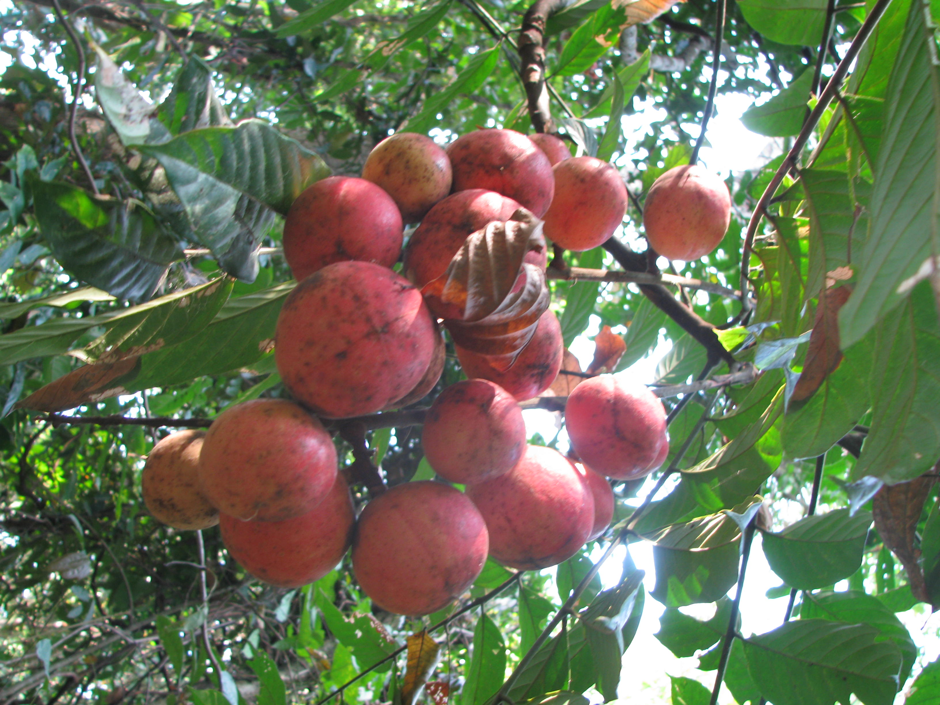 Fruits of Chisocheton paniculatus